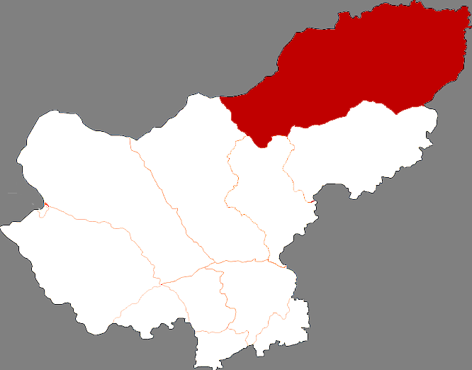 Locator map of East Ujimqin Banner in Xilingol League, Inner Mongolia, China